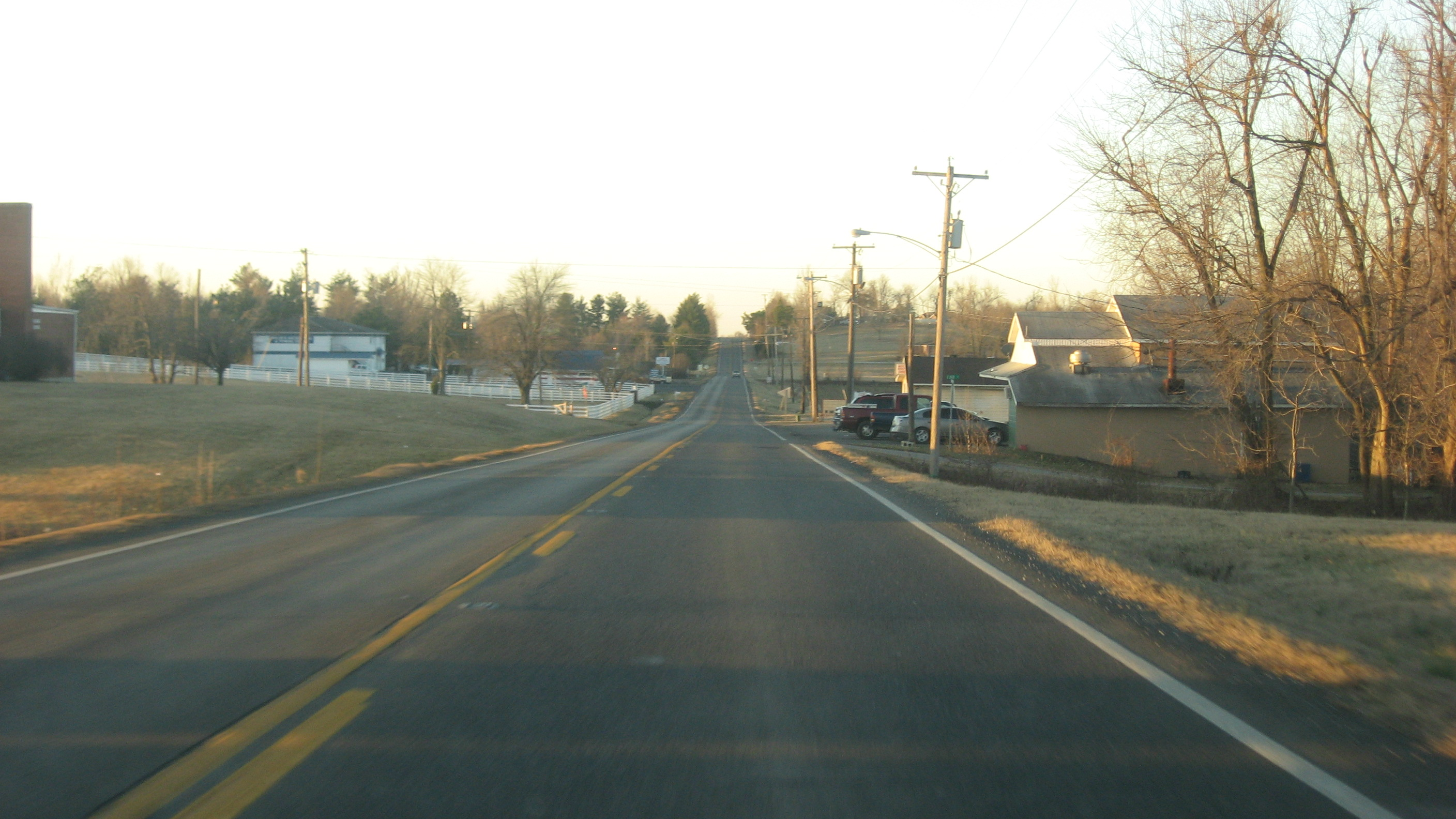 Looking southward on Adams Avenue (U.S. Route 431) north of the Hiland Avenue intersection in Island, Kentucky, United States.